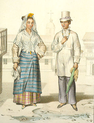 Chinese-Filipino mestizo costume, 1800s